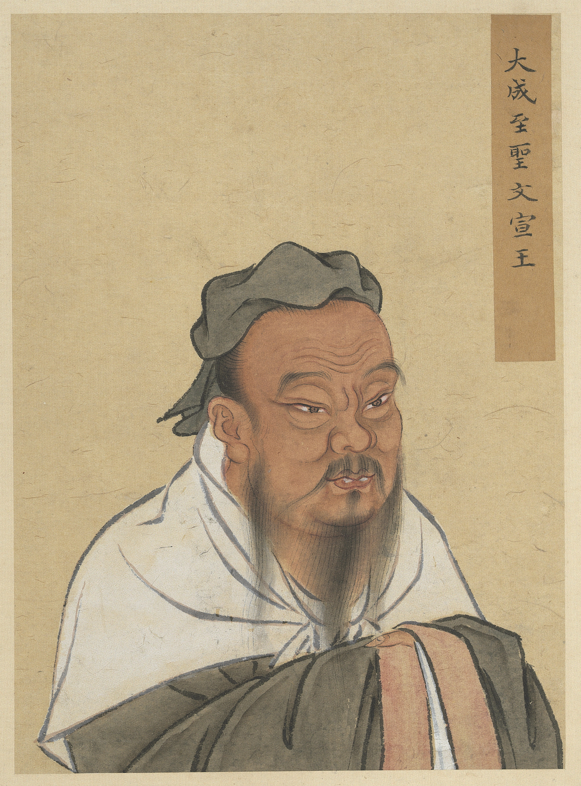 This depicts Confucius.